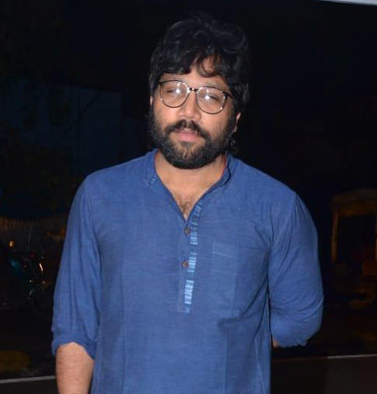 Indian filmmaker Sandeep Reddy Vanga at the success party of his directorial Kabir Singh.